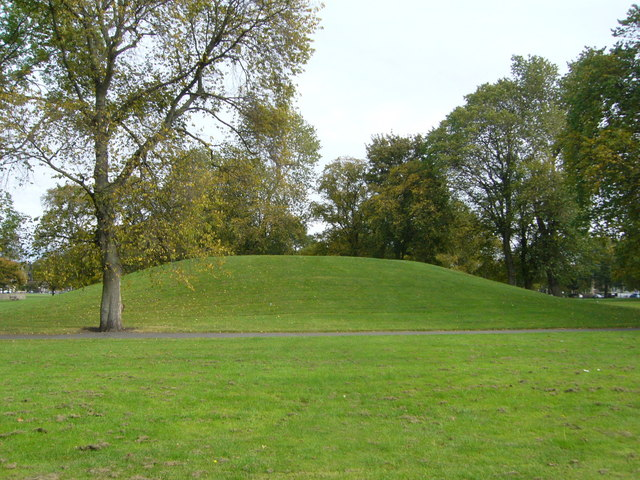 Mound on Leith Links. It appears on the OS map as 'Somerset's Battery' and is known locally as 'Giant's Brae'.